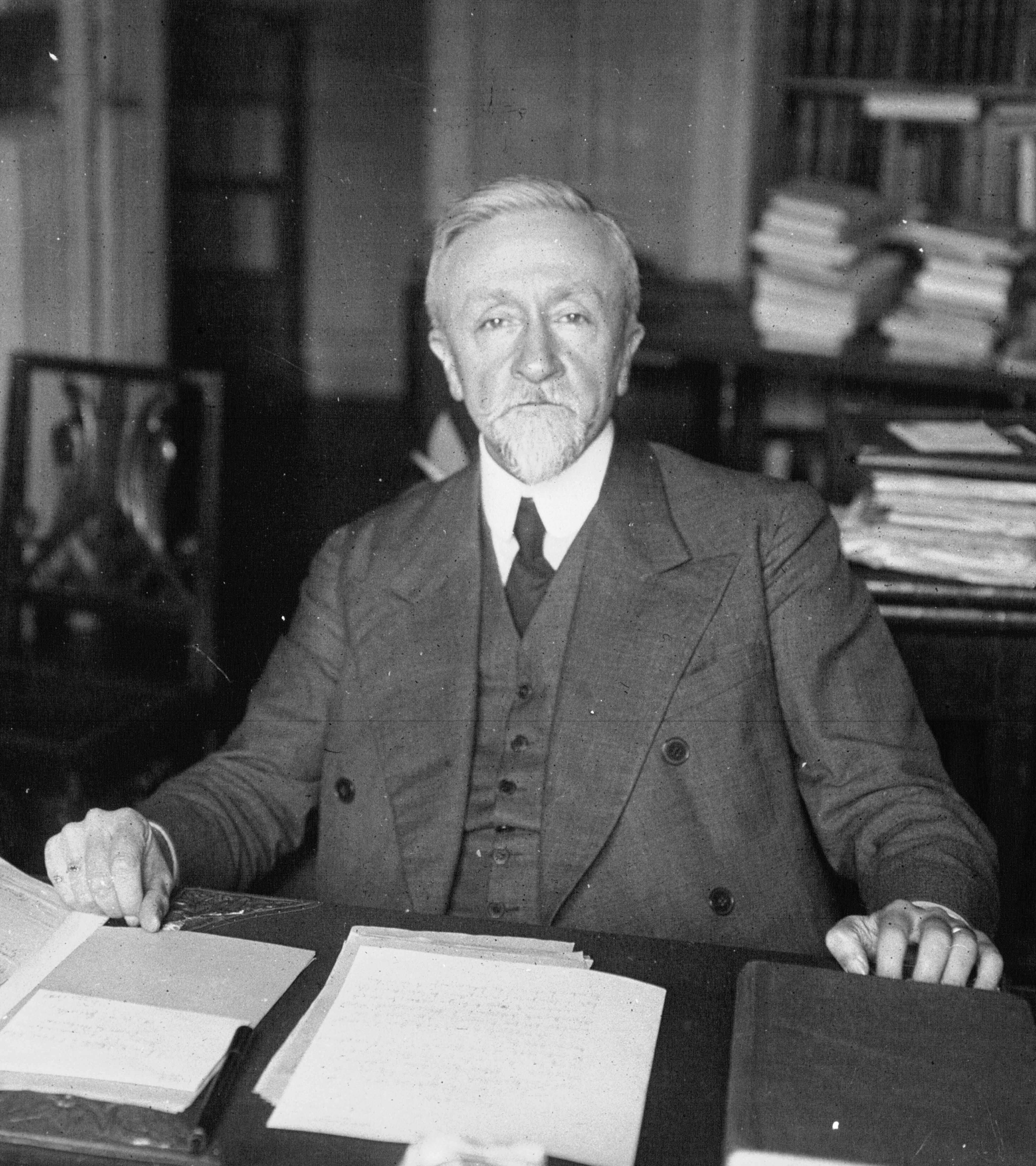 French slavist André Mazon (1881-1967).